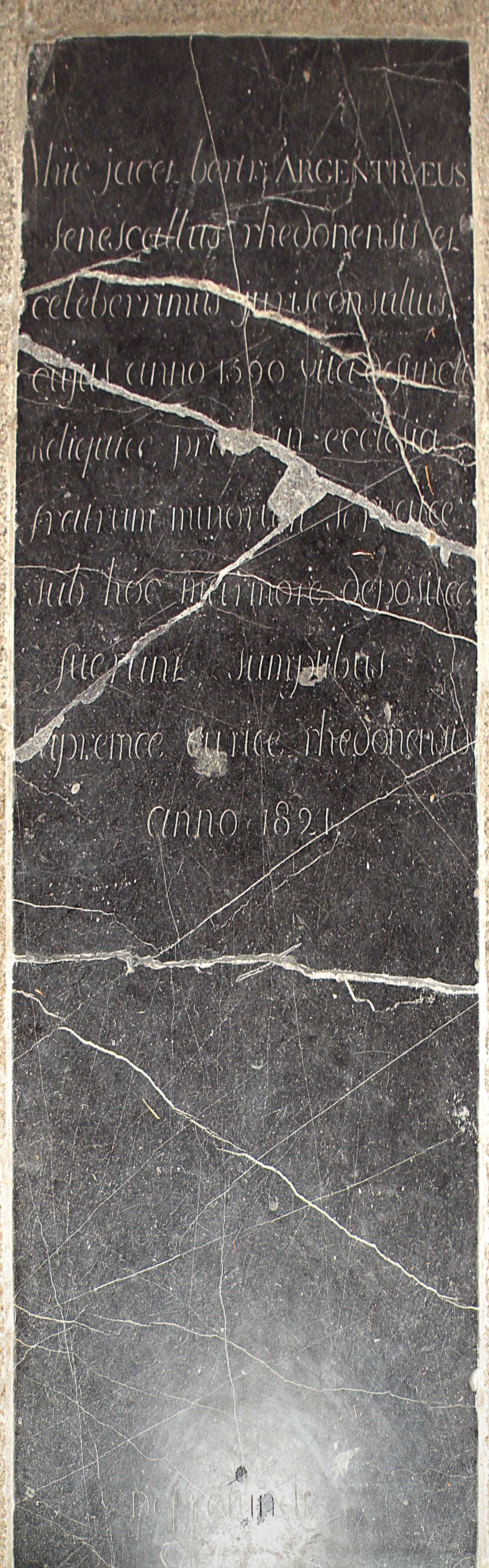 Bertrand d'Argentré’s gravestone in Saint-Germain church in Rennes.